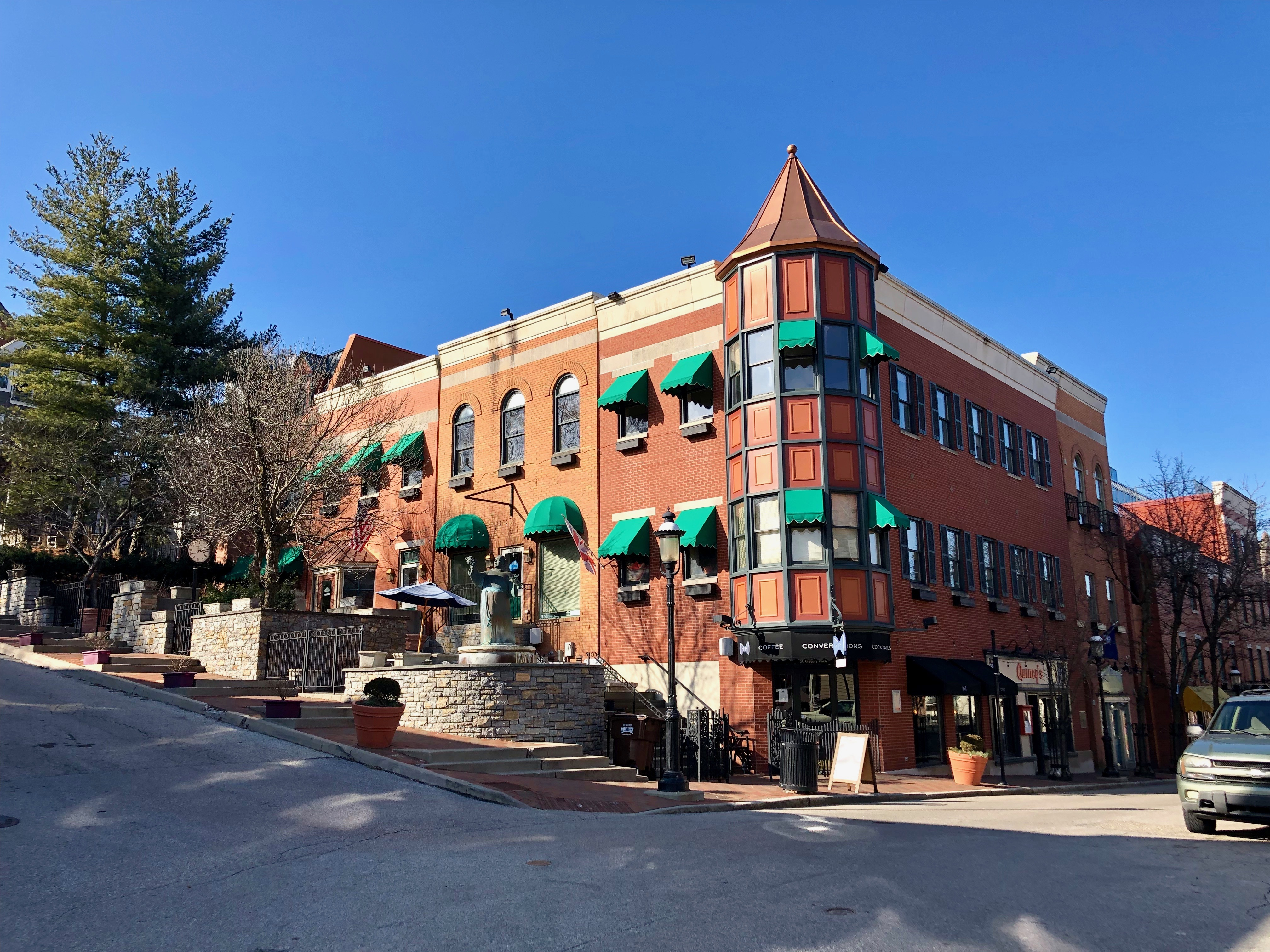 St. Gregory Street, Mount Adams, Cincinnati, OH